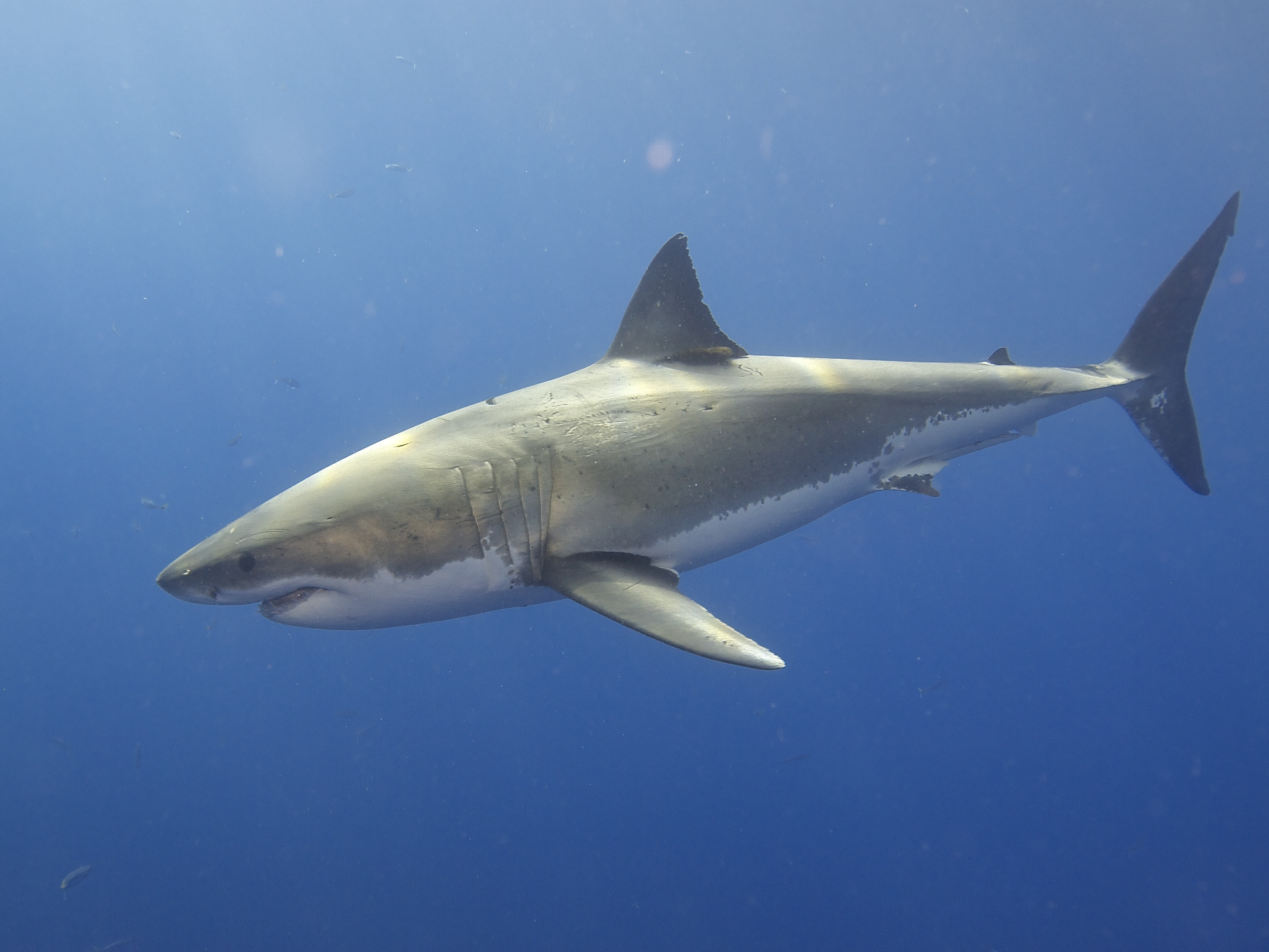 Great White Shark